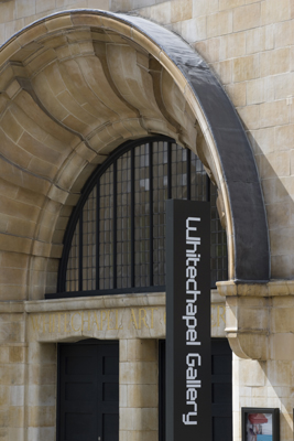 Whitechapel Gallery